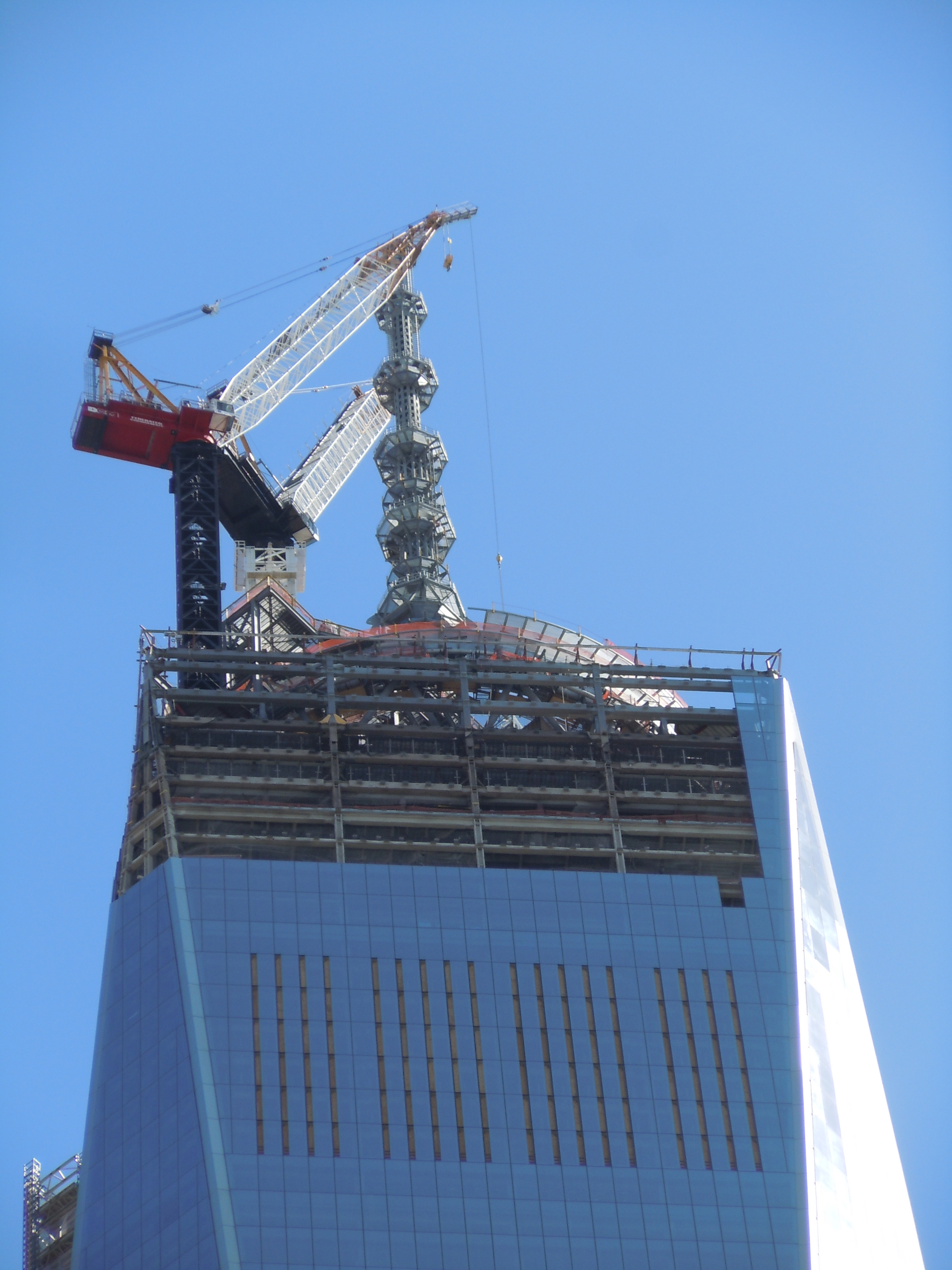 Its May 1st, 2013 and she is all Glassed up on this side. World Trade Center, New York City, New York J Riehle